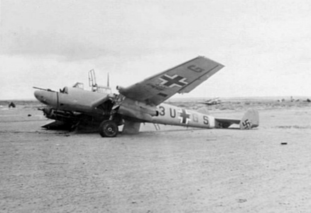 A wrecked German Messerschmitt Bf 110(E-1?) aircraft at Fuka, Egypt. The aircraft in front had been assigned to ZG 26 (26th Destroyer Wing). Note: Photo 022189 shows an earlier D(-3?) model with the same code 3U+GS at El Gazala, Libya, in December 1941 - compare the different size and place of the white MTO fuselage band.